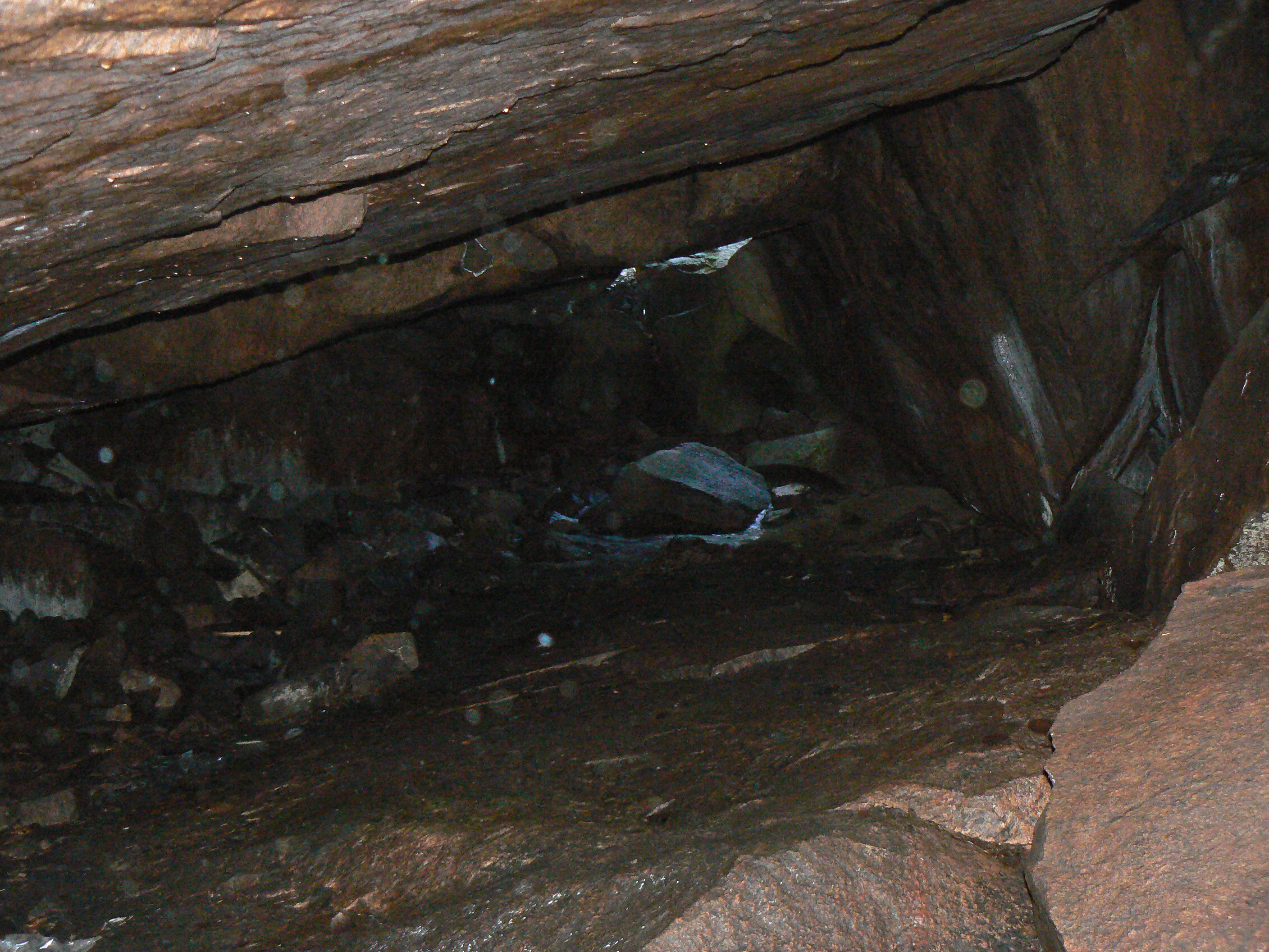 Inside Torekulla kyrka ("Torekulla church"), a cave close to Finspång in Östergötland, Sweden.